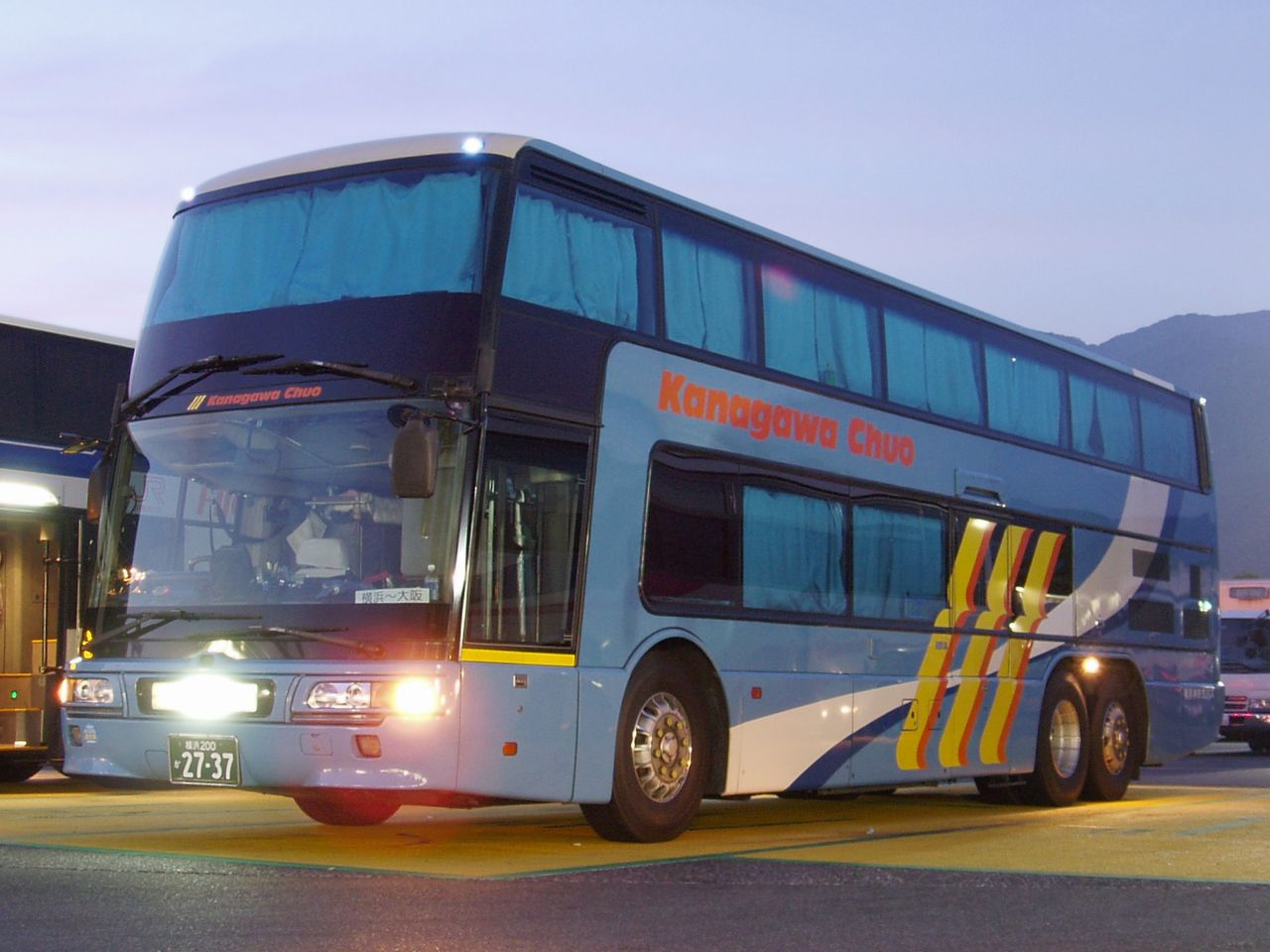 Yokohama Kanako Bus YK702 "Harbor Light Osaka" Mitsubishi KC-MU612TA at Ashigara Service Area